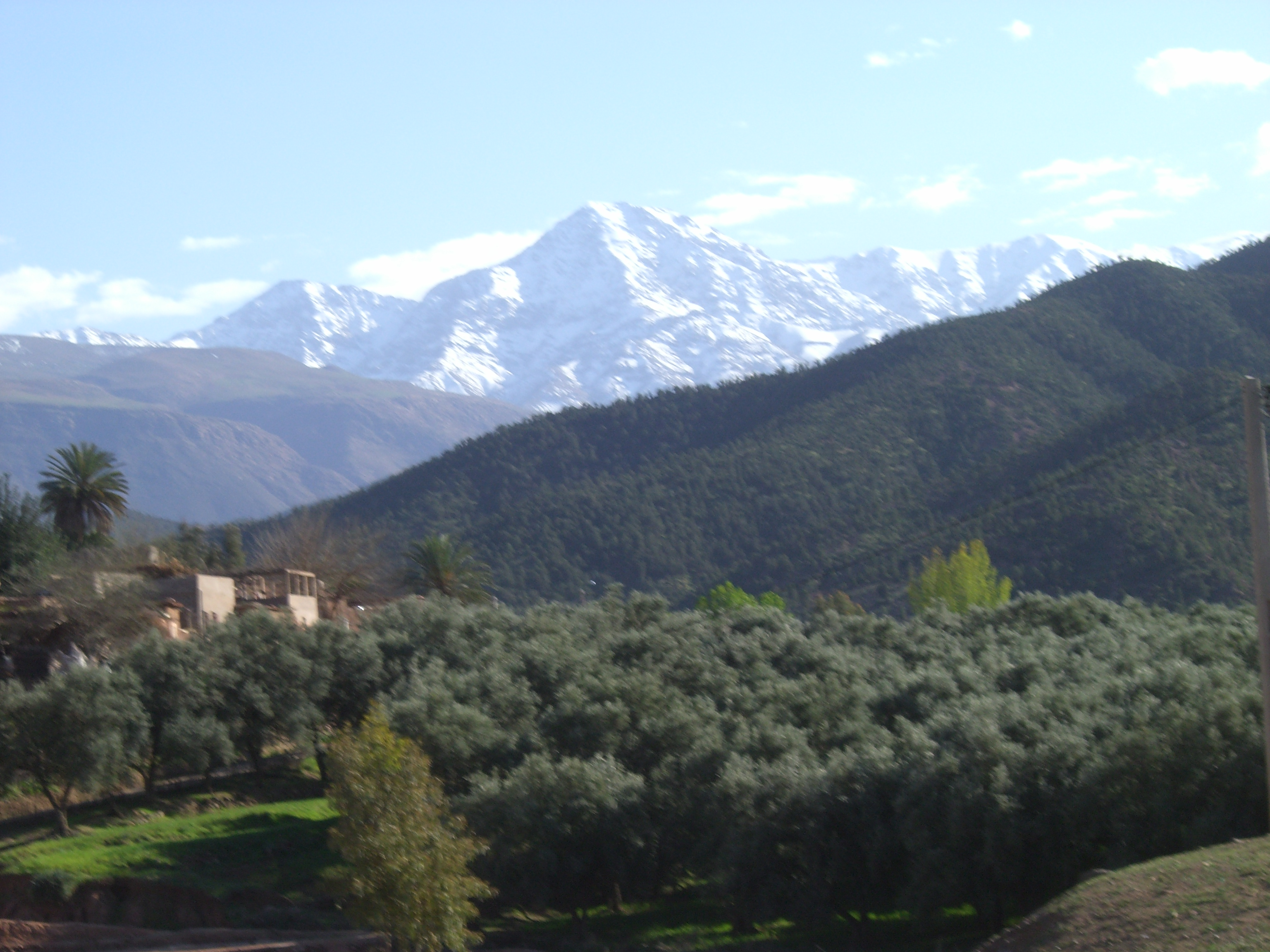 View of High Atlas mountain range from Ourika River Valley near Marrakech